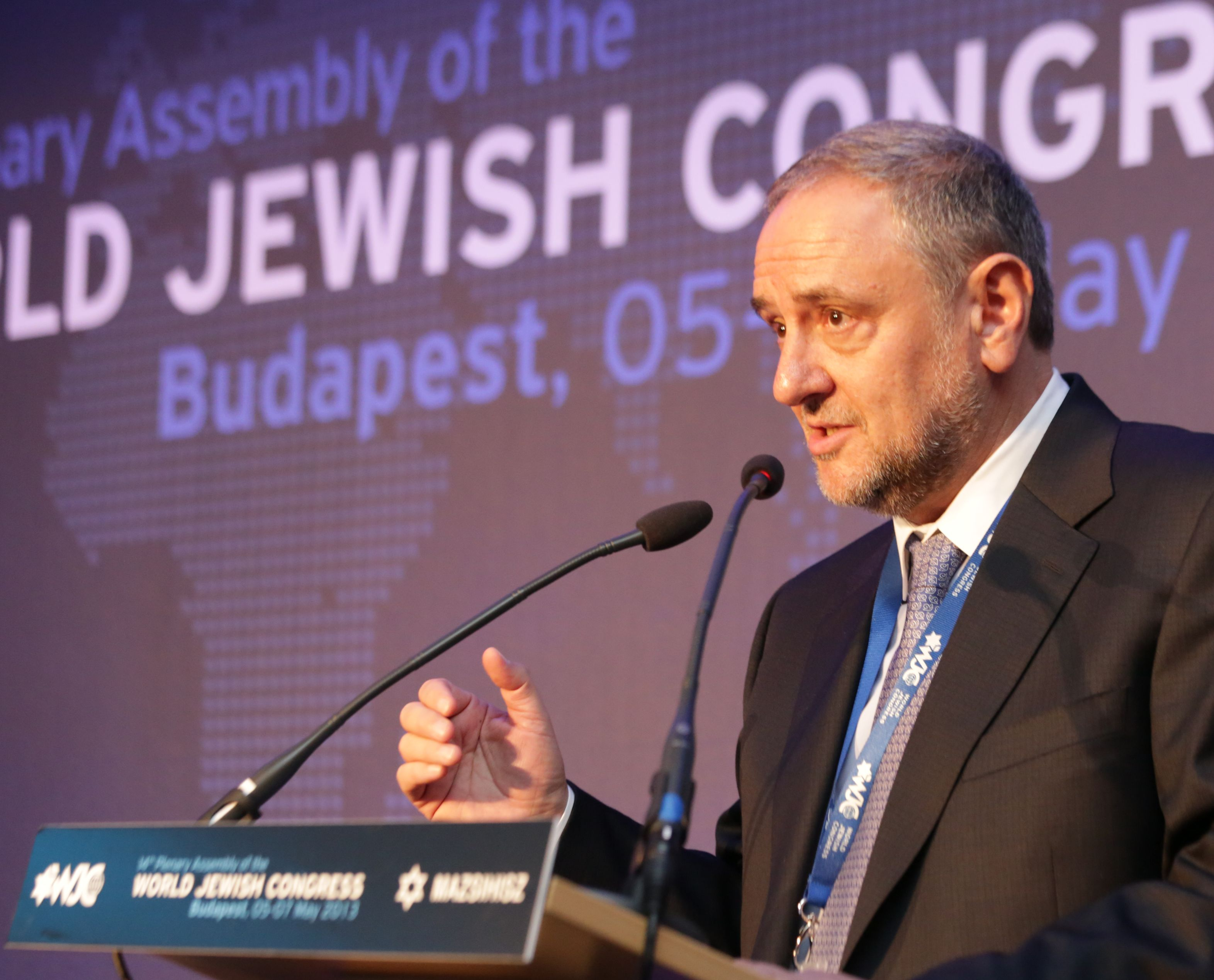 Robert Singer, chief executive officer of the World Jewish Congress, speaking at the Plenary Assembly of the organization in Budapest, Hungary, 6 May 2013